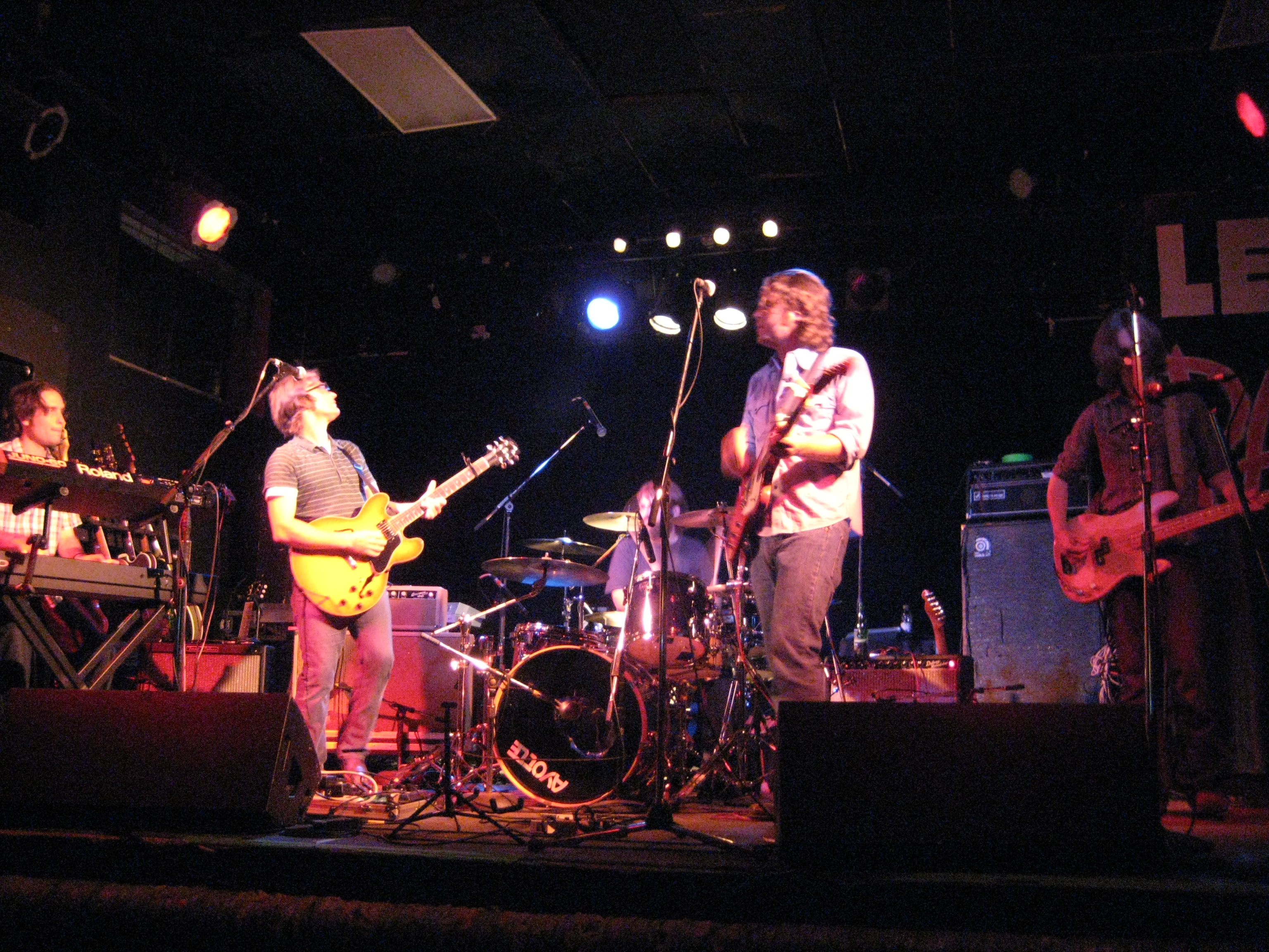 The Broken West in concert in Toronto